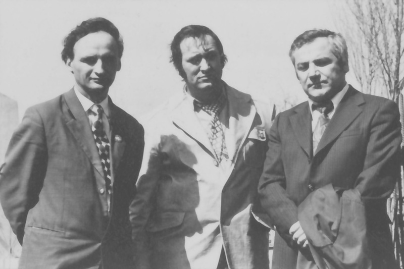 The Moldavian poets of Grigore Vieru, Ion Vatamanu and writer Serafim Saca (70-ies).